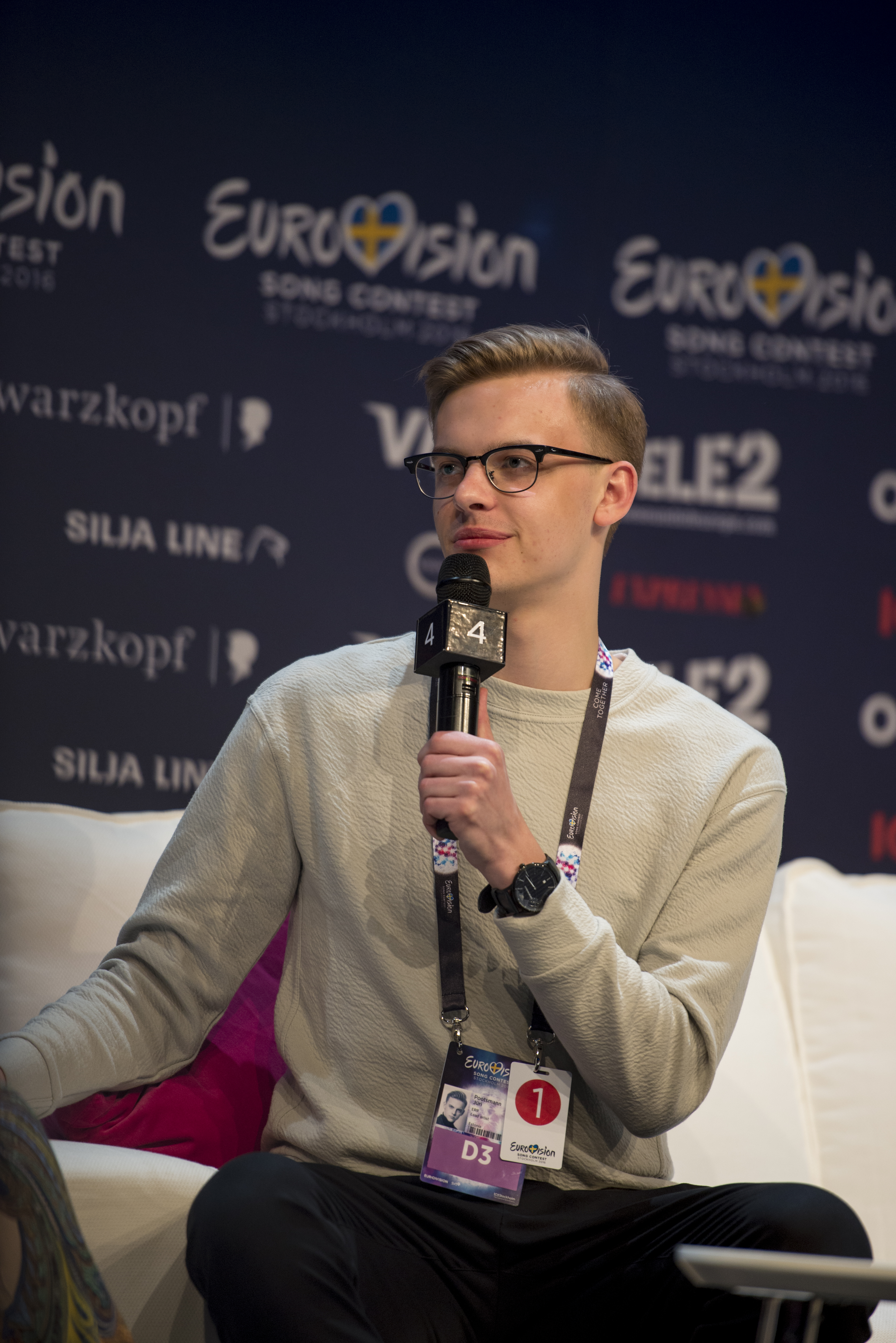 Jüri Pootsmann at a Meet & Greet during the Eurovision Song Contest 2016 in Stockholm. (Help translate this text)